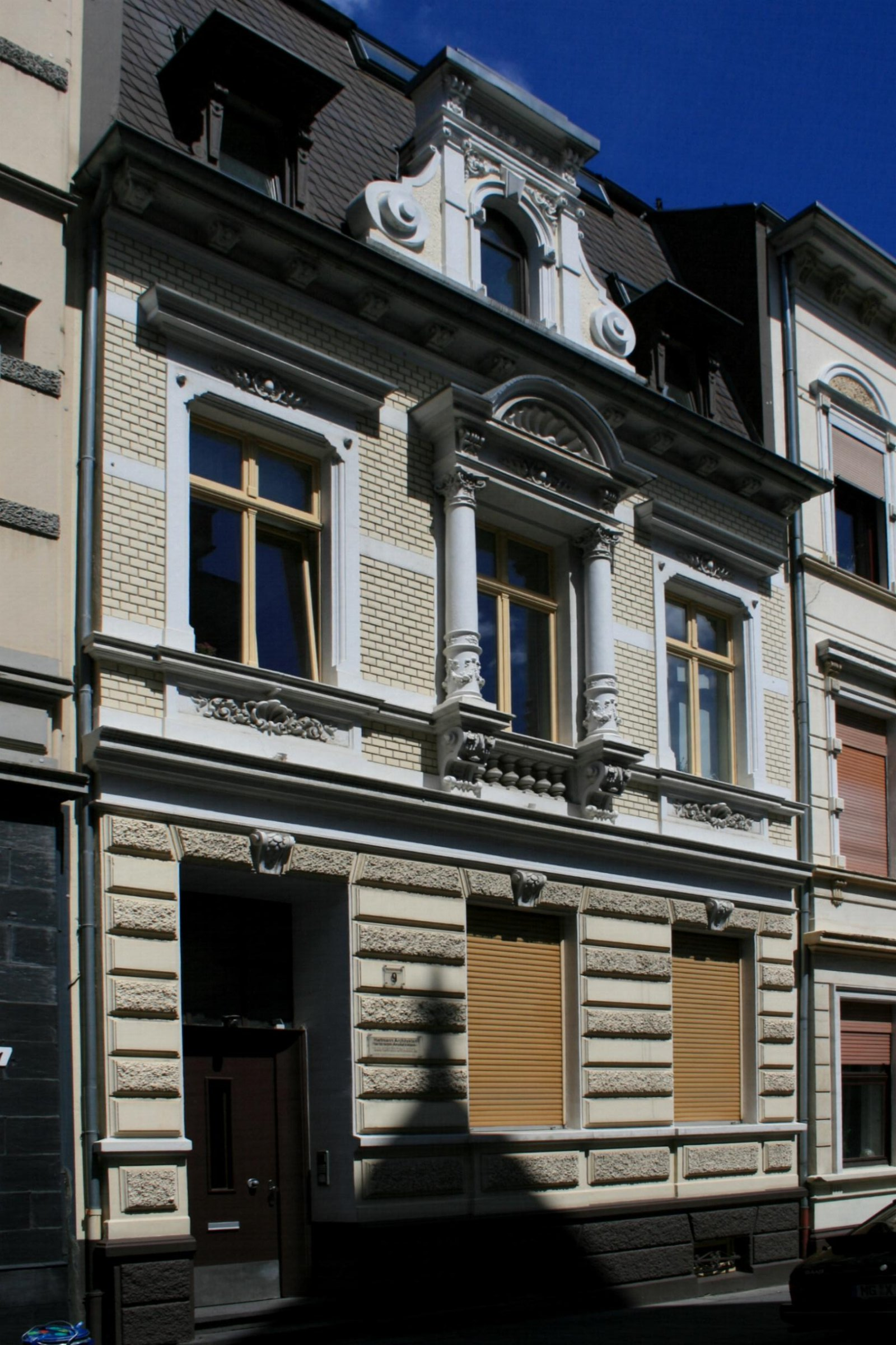 Cultural heritage monument No. M 020 in Mönchengladbach